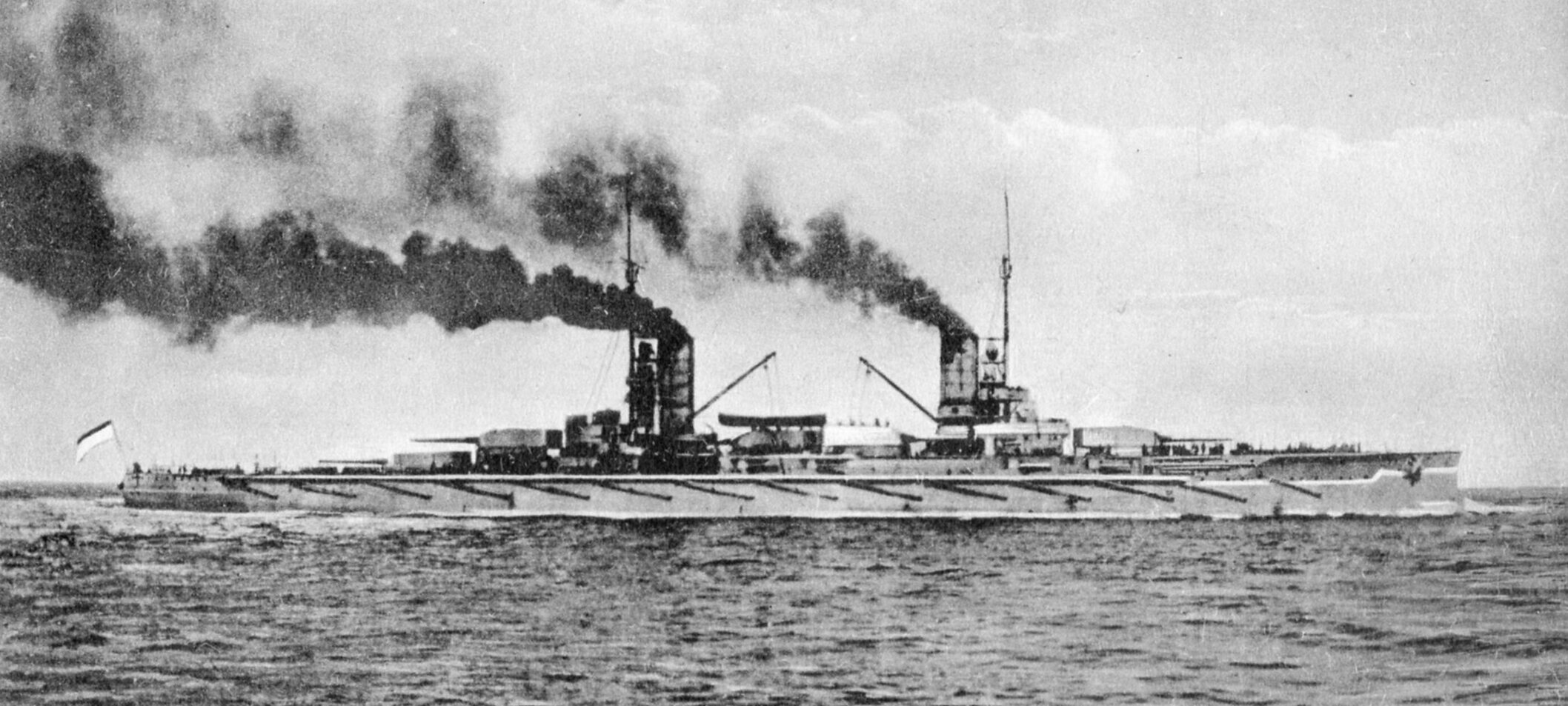 Imperial German battleship SMS KÖNIG ALBERT